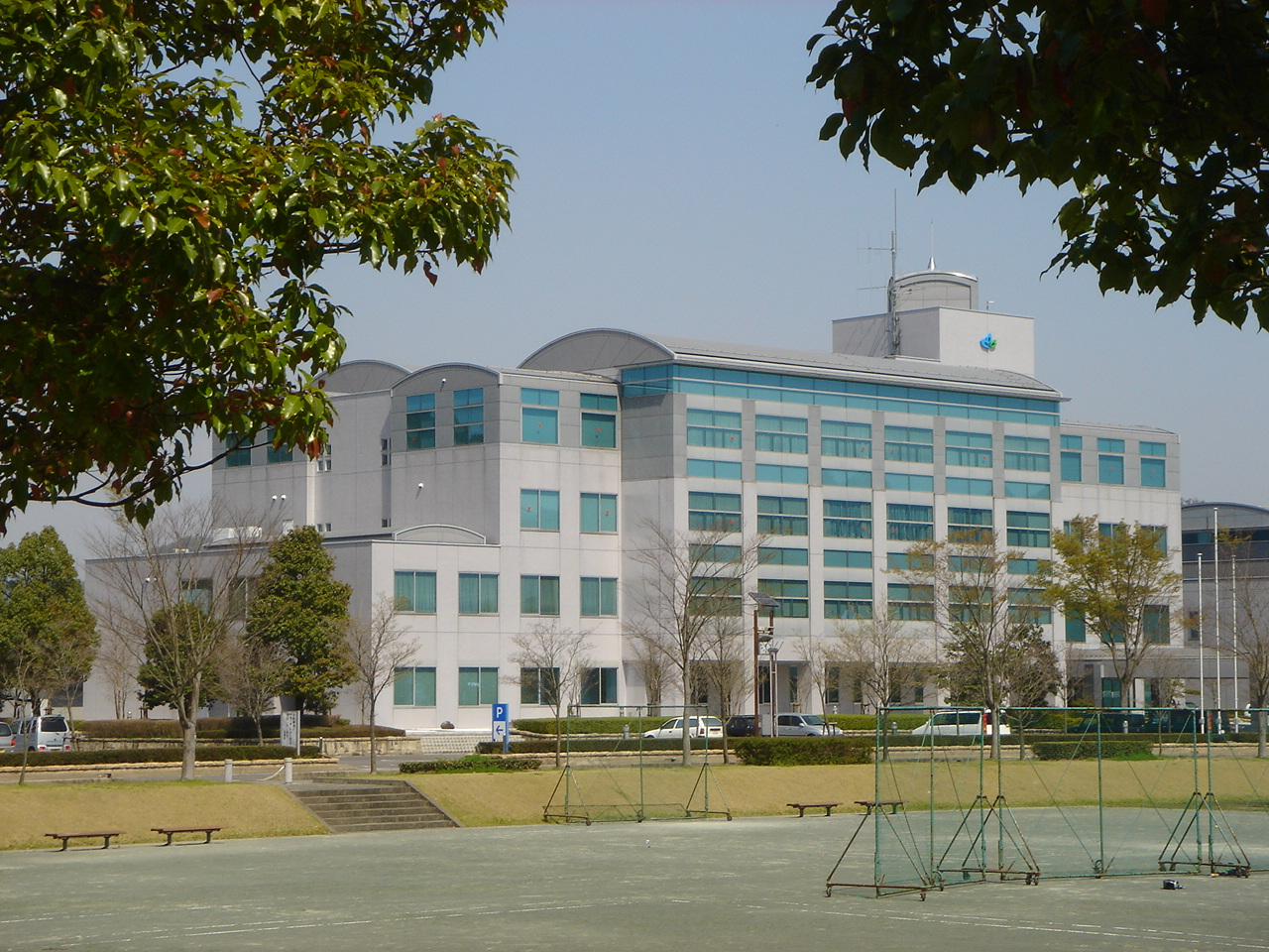 Yamagata City Hall in Gifu Preferture, Japan